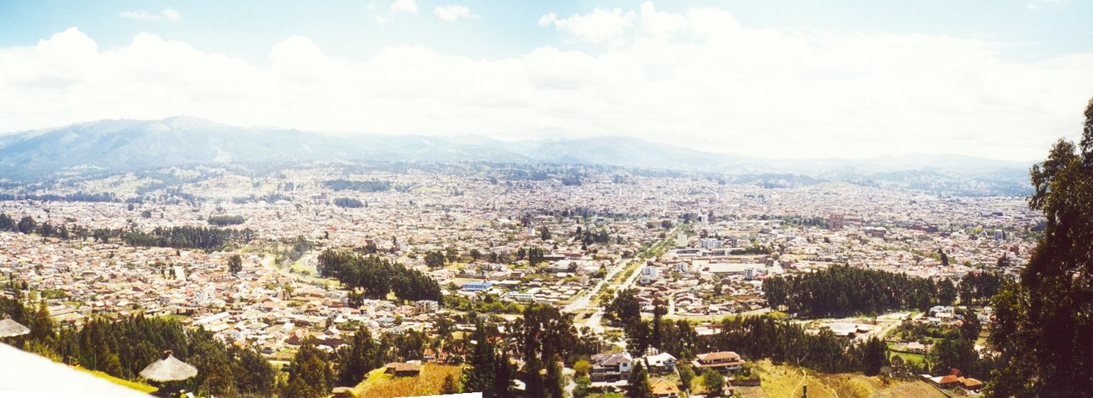 Panoramic View of Santa Ana de los Cuatro Ríos de Cuenca capital of Azuay province in Ecuador. Panoramic View of Cuenca, seen from the village of Turi